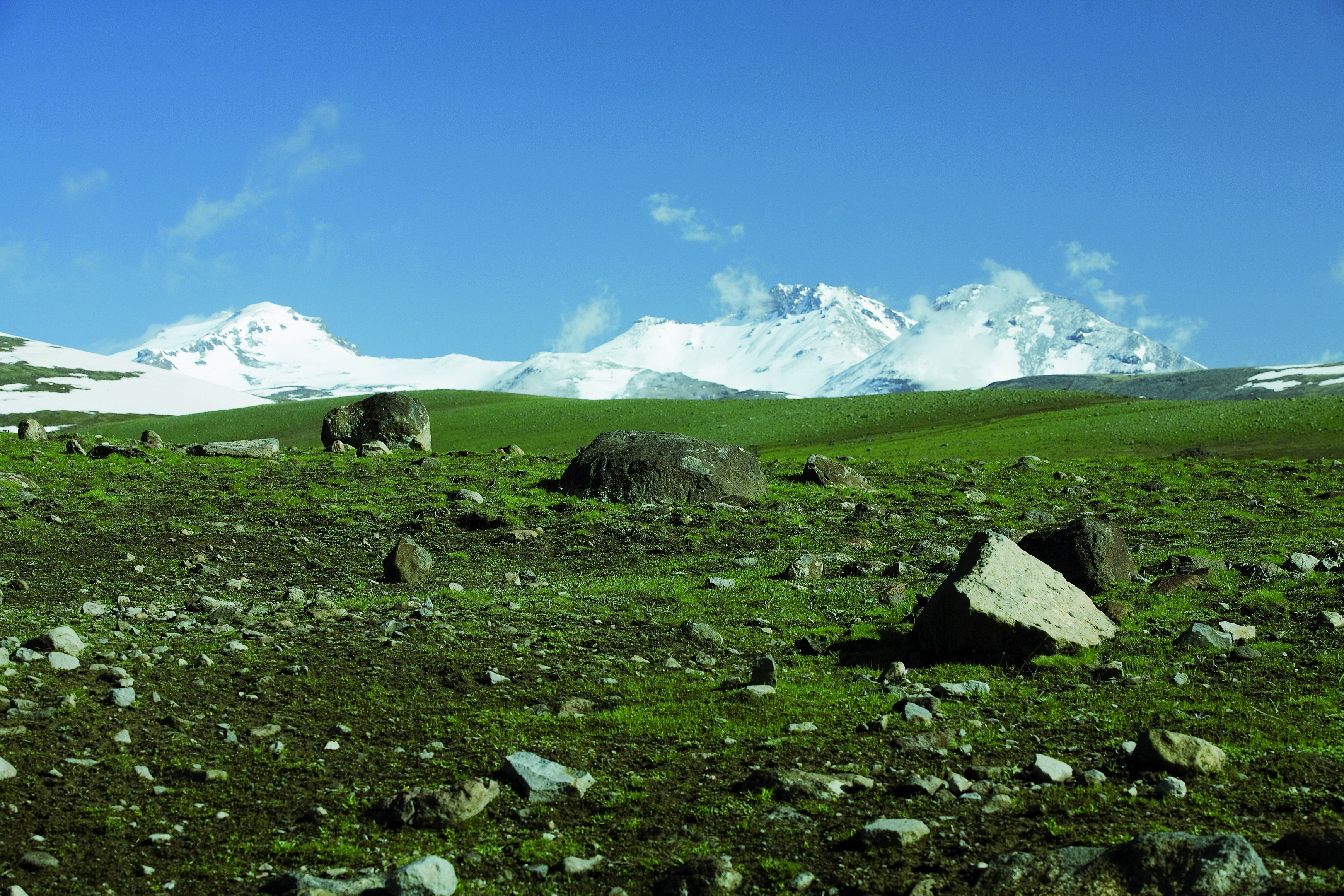 Mt Aragats